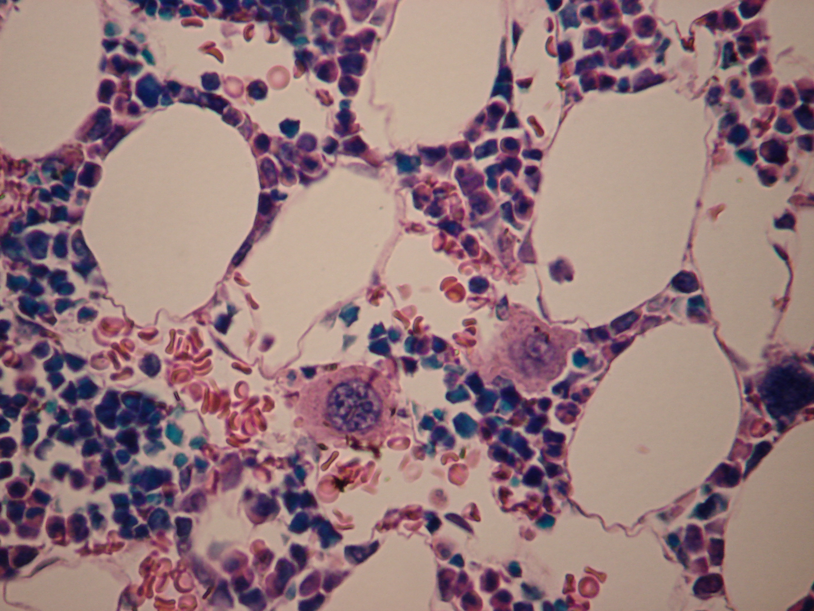 Two megakaryoctes are visible in this slide of bone marrow